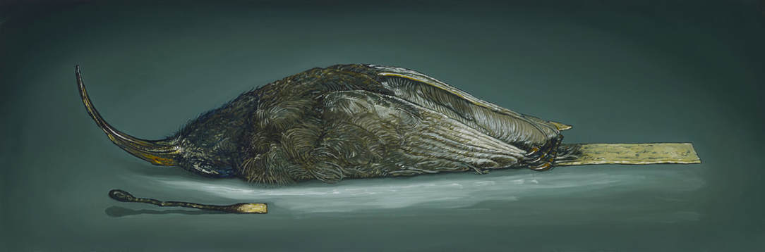 Alberto Rey's "Black Mamo", oil on board, 2019, from his Extinct Birds Project completed 2019.